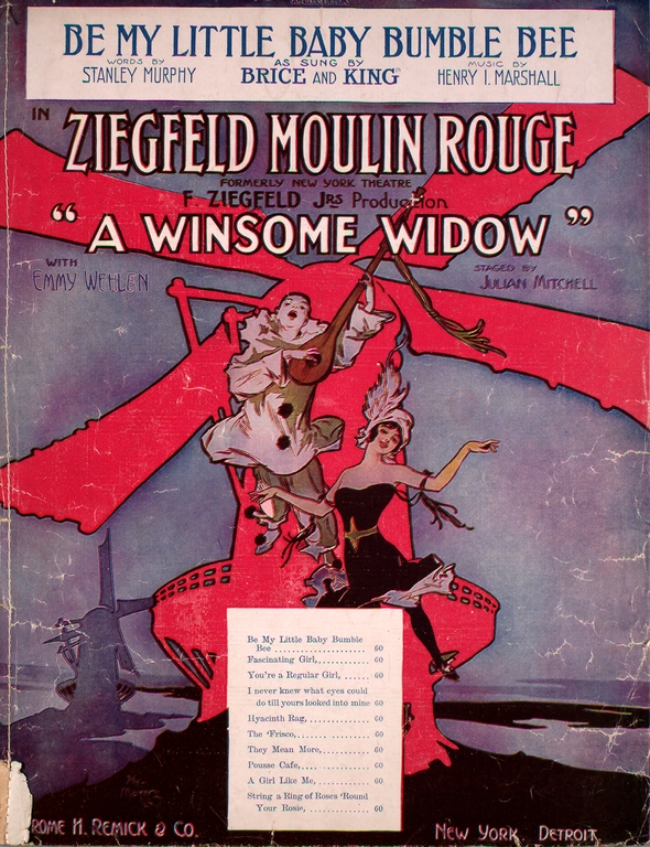 Sheet music cover for "Be My Little Baby Bumble Bee" by Stanley Murphy (lyrics) and Henry I. Marshall (music), which a hit from the 1912 Broadway musical "A Winsome Widow"